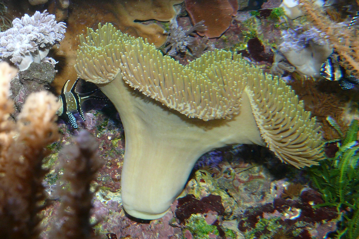 Leather coral (Sarcophyton sp.)